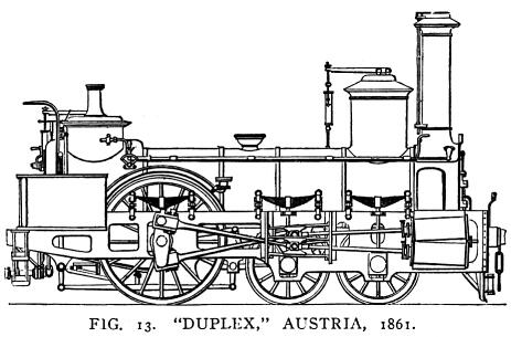 Curiosities of Locomotive Design DUPLEX